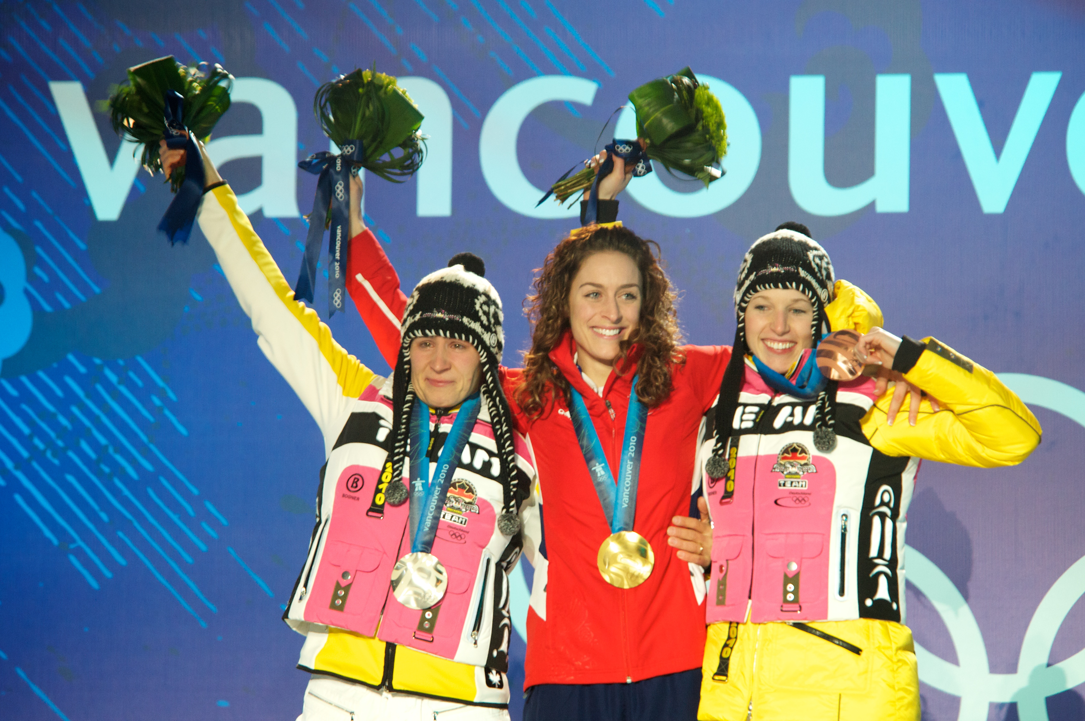 The Medal Ceremony at Whistler on Day 9 of the Vancouver 2010 Winter Olympics.